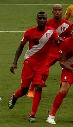 Christian Ramos Russia 2018